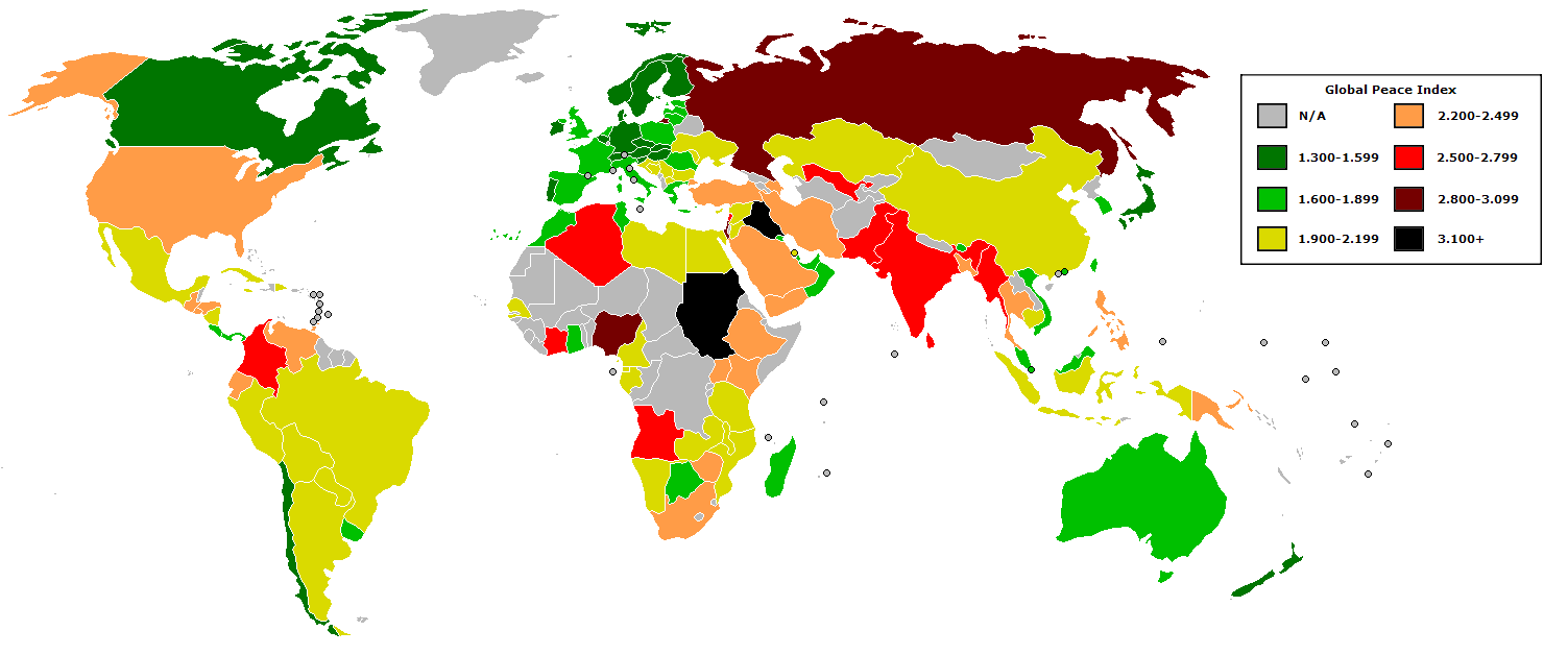 Representation of Global Peace Index in the world. The scale means: 1 = most peaceful, 5 = least peaceful. 'Peacefulness' is understood as 'absence of violence' [1].